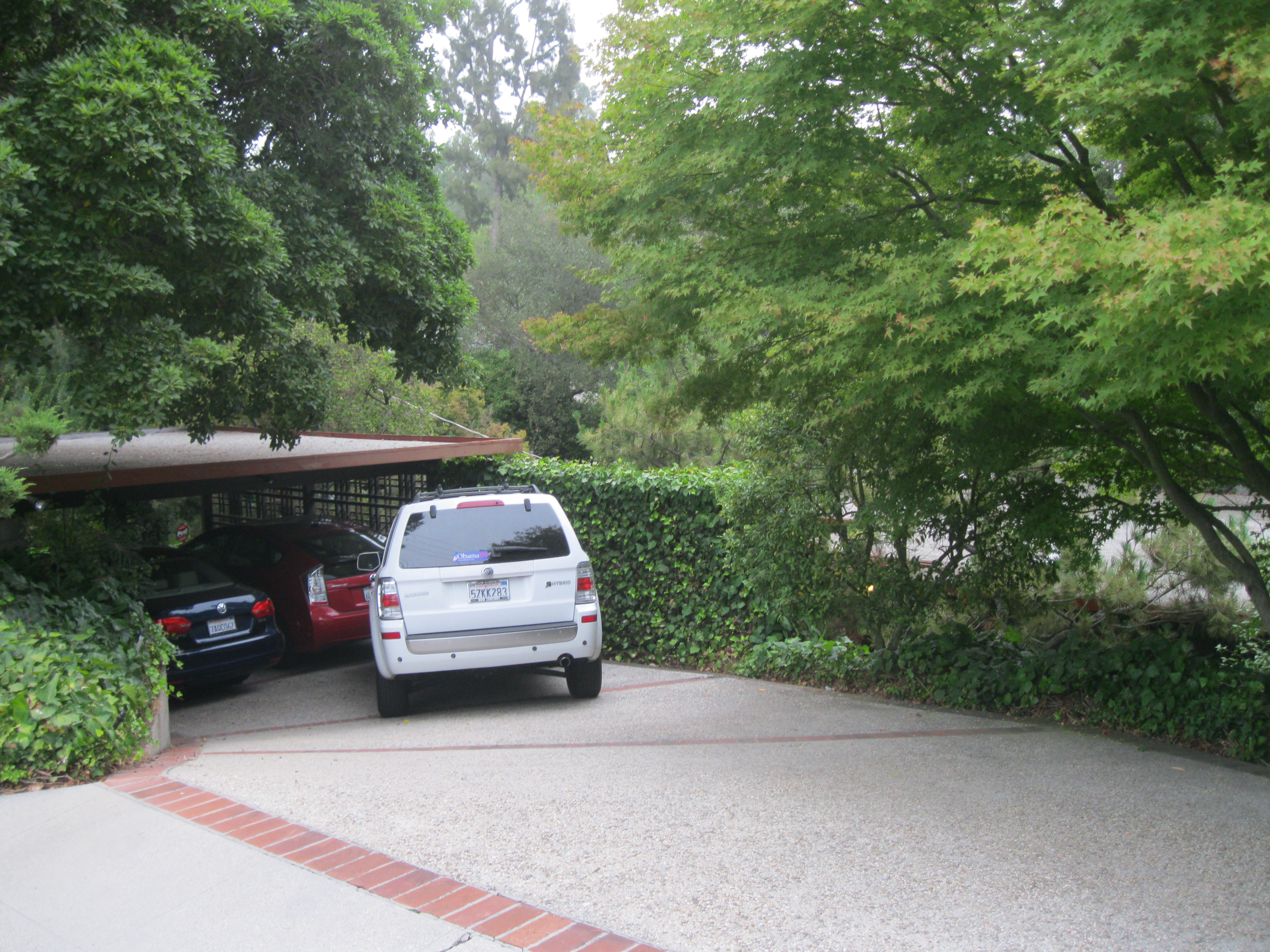 The garage of the John Norton House in Pasadena, CA, listed on the National Register of Historic Places.